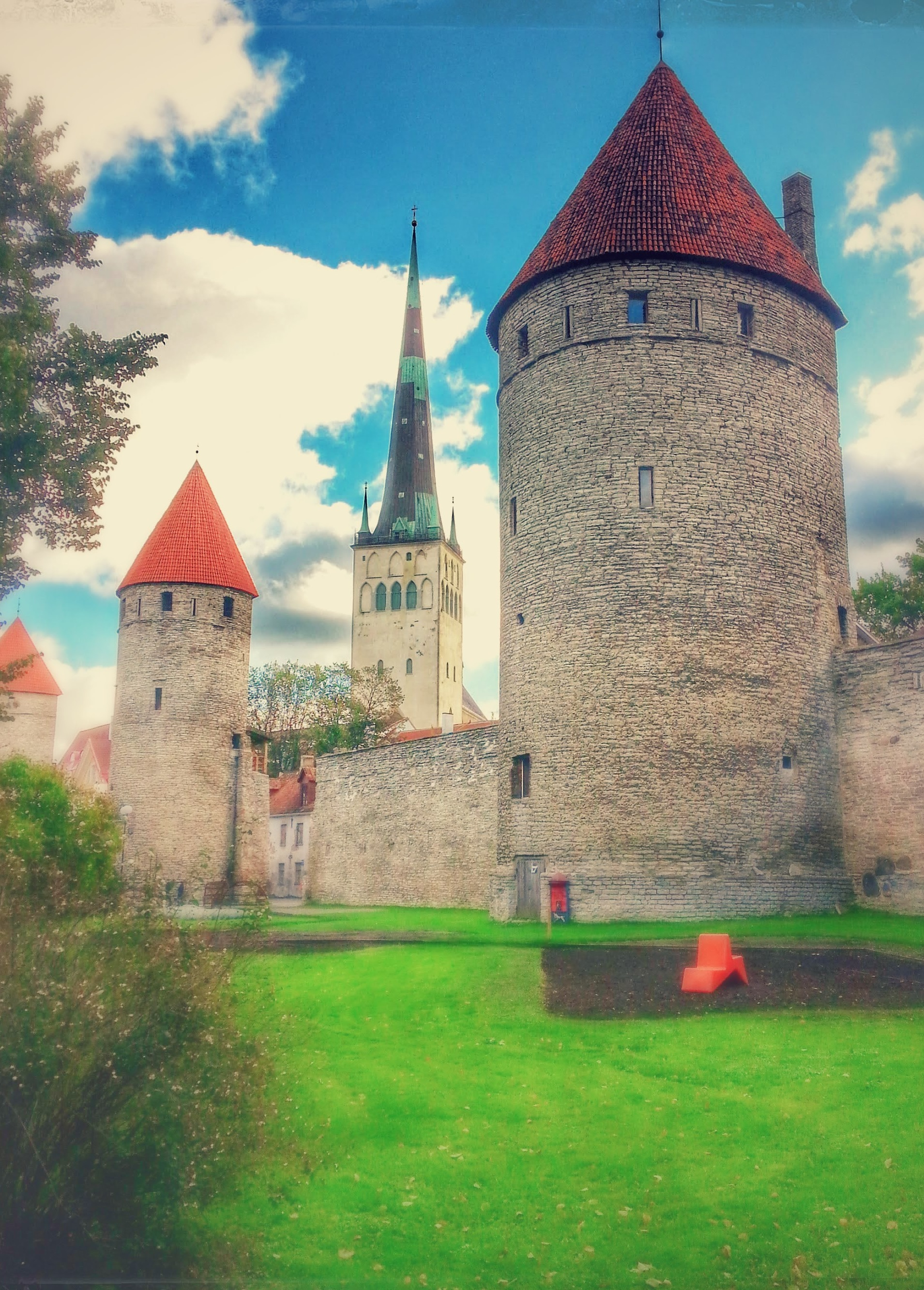 Tallinn City Wall